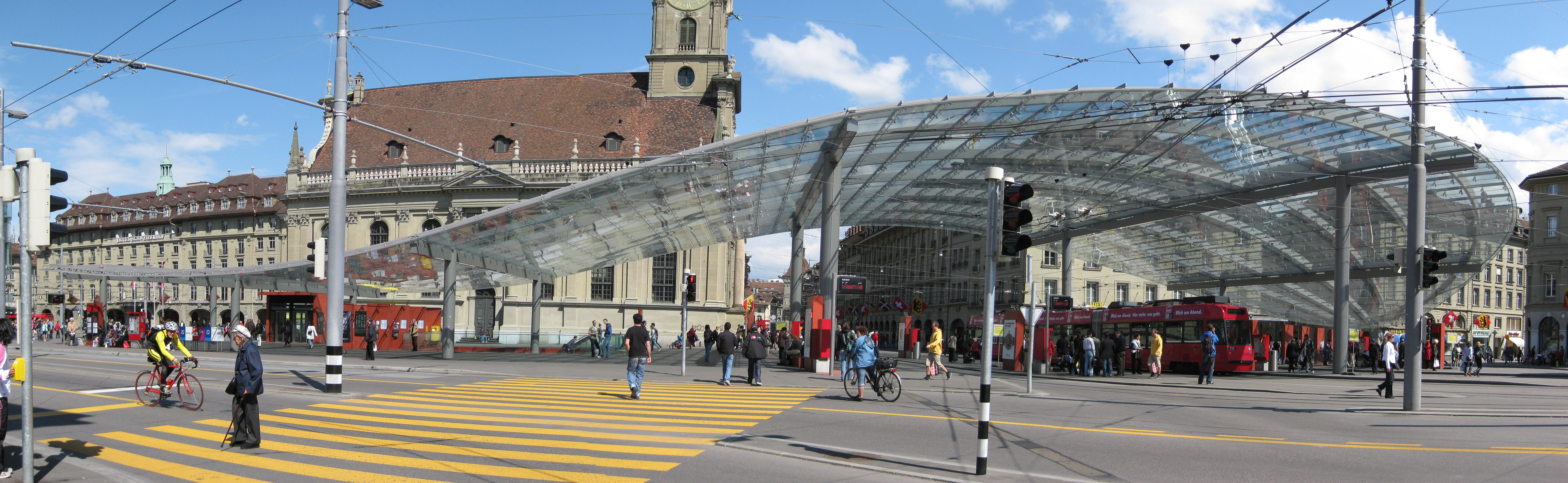 Berne near the mainstation